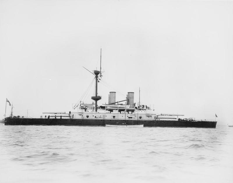 The Battleship Howe of 1885- Predecessor To the 35,000 Ton Howe of Today. HMS HOWE of 1885: Quarter view.